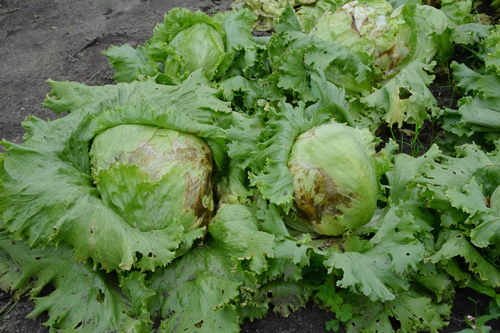 Iceberg lettuce, rotting heads